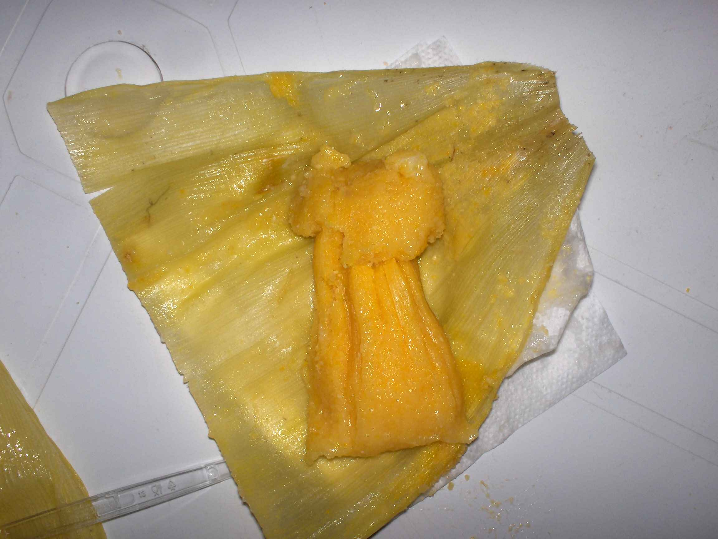 A pamonha, a traditional food in Brazil